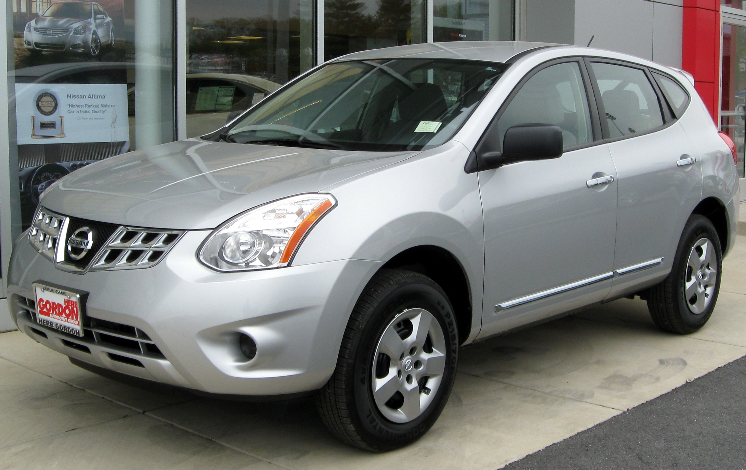 2011 Nissan Rogue photographed in Silver Spring, Maryland, USA.